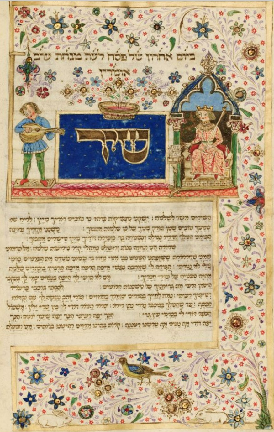 This is a photo of an exhibit at the Diaspora Museum, Tel Aviv - Beit Hatefutsot. The Note says: Minstrel playing before King solomon Illumination for the opening verse of Song of Songs, the Rothschild Mahzor, Manuscript on parchment. Florence, Italy, 1492. The Jewish Theological Seminary of America, New York